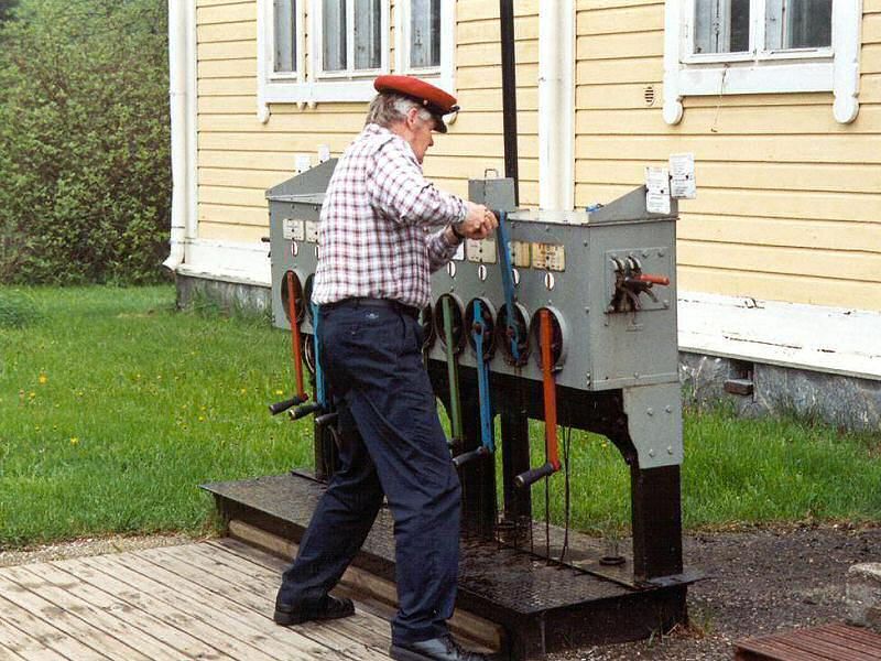 A train dispatcher operating the point levers of a crank-type points-machine at Sukeva, Finland. This photograph was taken only months before the points-machine was torn away during the installation of electric points-machines.